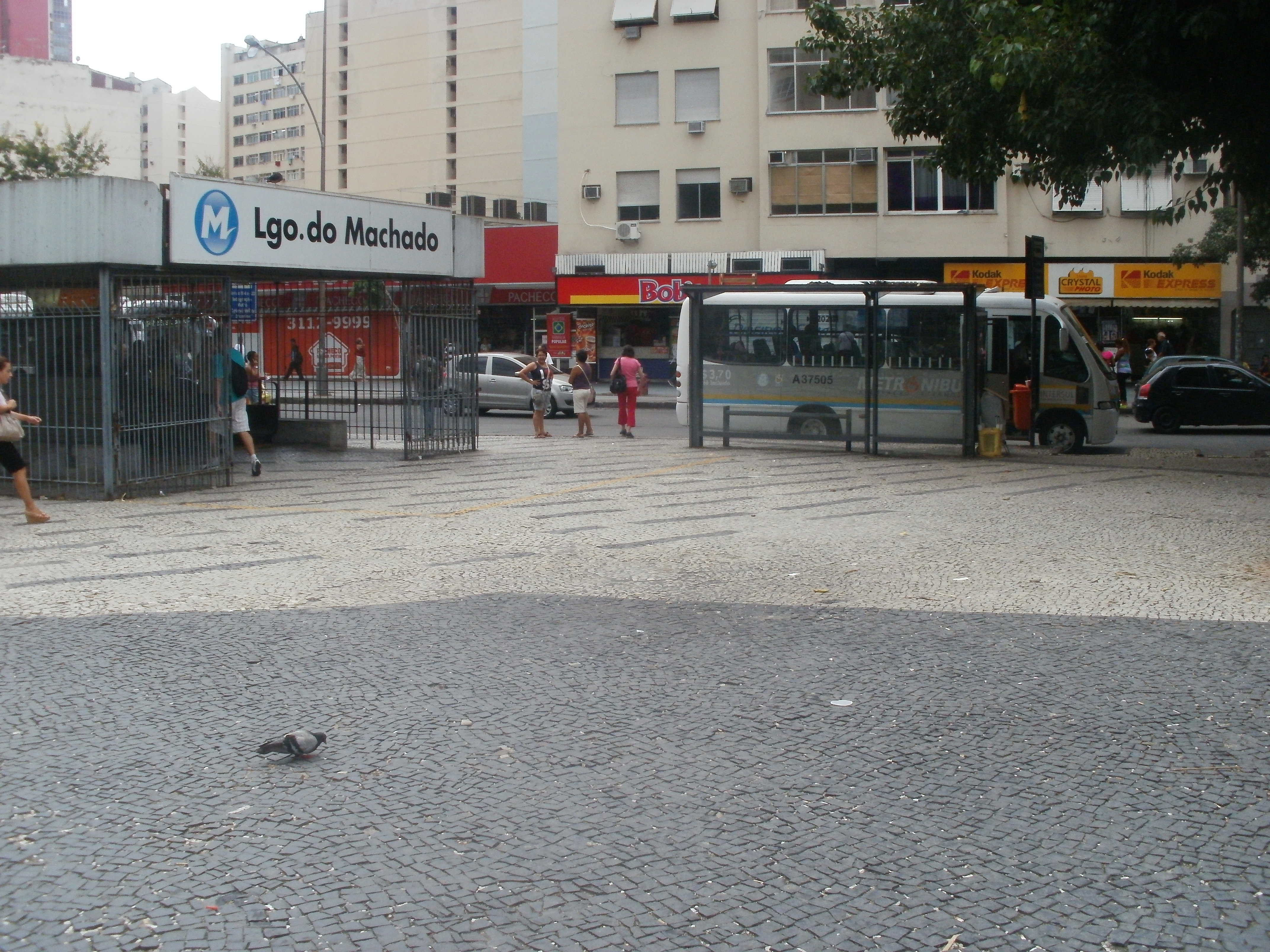 Estação Largo do Machado, Catete, cidade do Rio de Janeiro, Brasil.